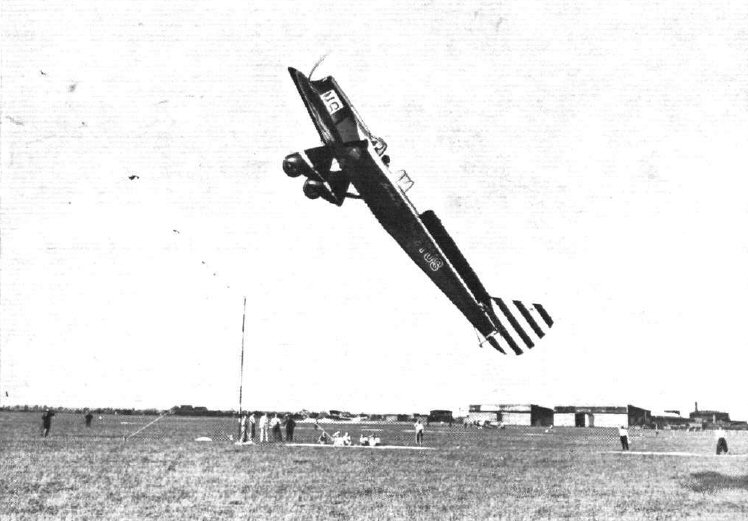 Breda Ba-33 aircraft of Francesco Lombardi during short take-off trial during the Challenge 1932 contest.